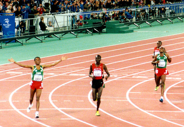 Haile Gebrselassie celebrates at the end of the 10000m.